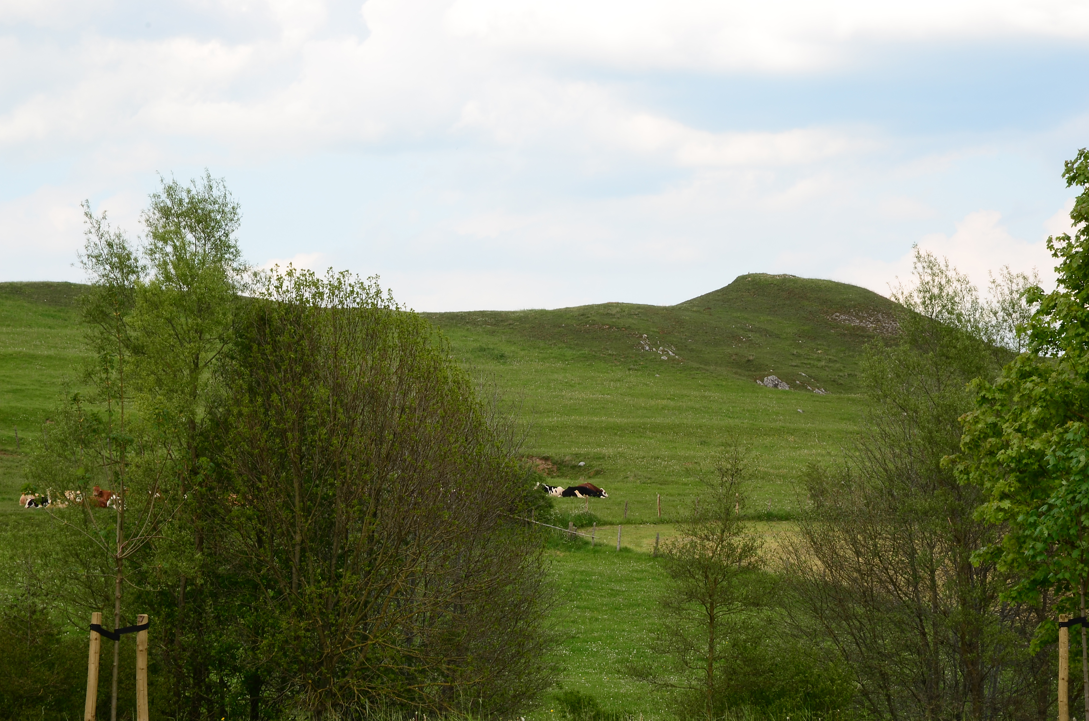 Nature reserve Gericht (5) Key number: HSK-534, Brilon, North Rhine-Westphalia, Germany.